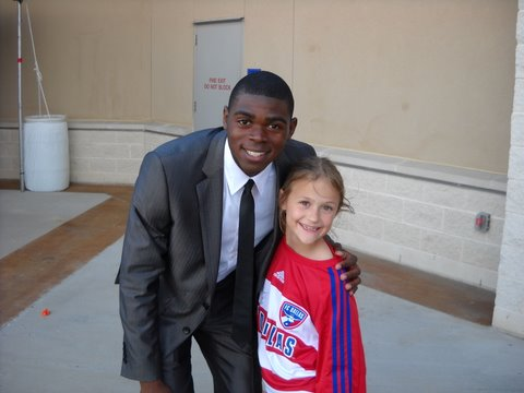 Anthony Wallace (left)